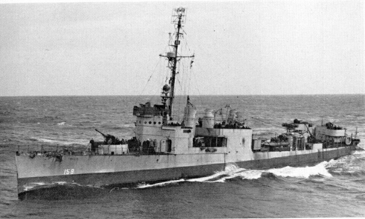 USS Leary wearing measure 22 camouflage during World War II after replacement of 4"/50 guns by 3"/50 guns.